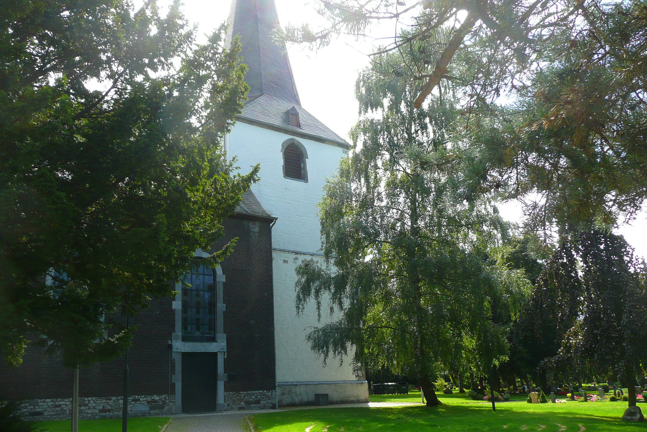 Church St. Martin in Aachen-Richterich